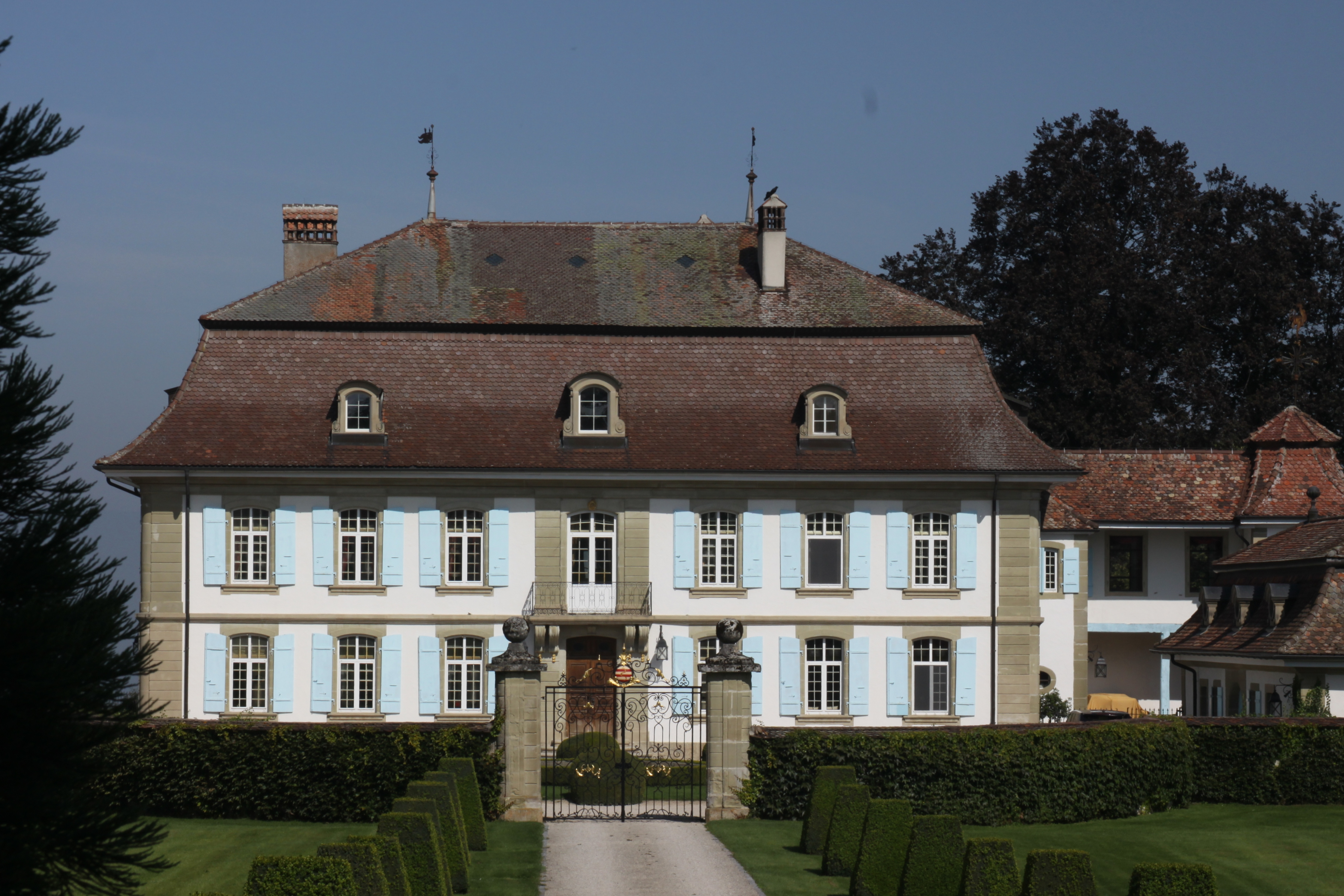 Castle Griset de Forel, À Middes 21, Torny-Middes